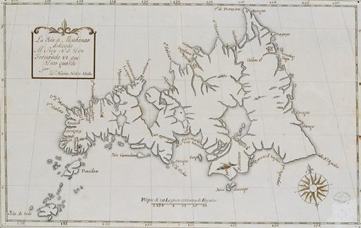 Spanish map of Mindanao. Oldest extant map featuring the newly named "Basilan" island.